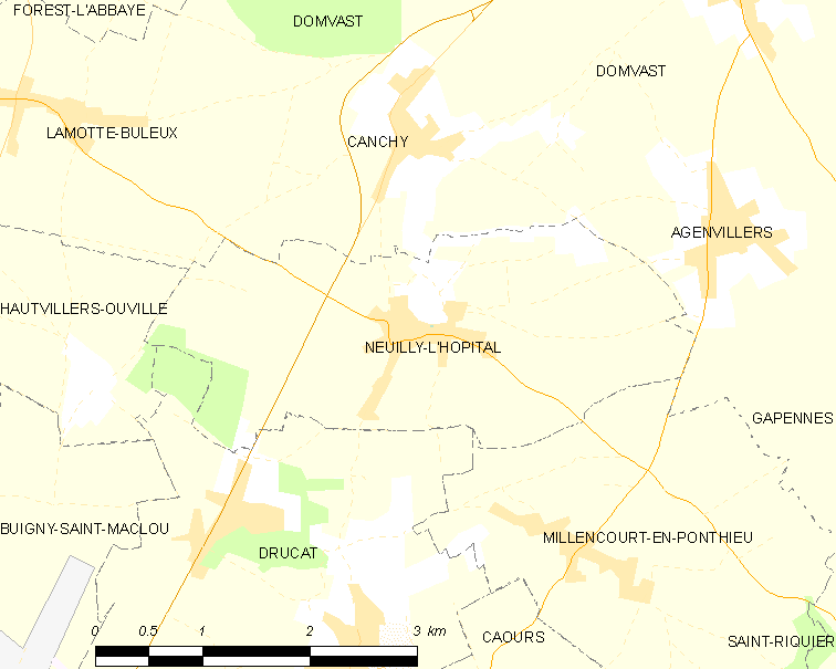 Map of French municipality Neuilly-l'Hôpital